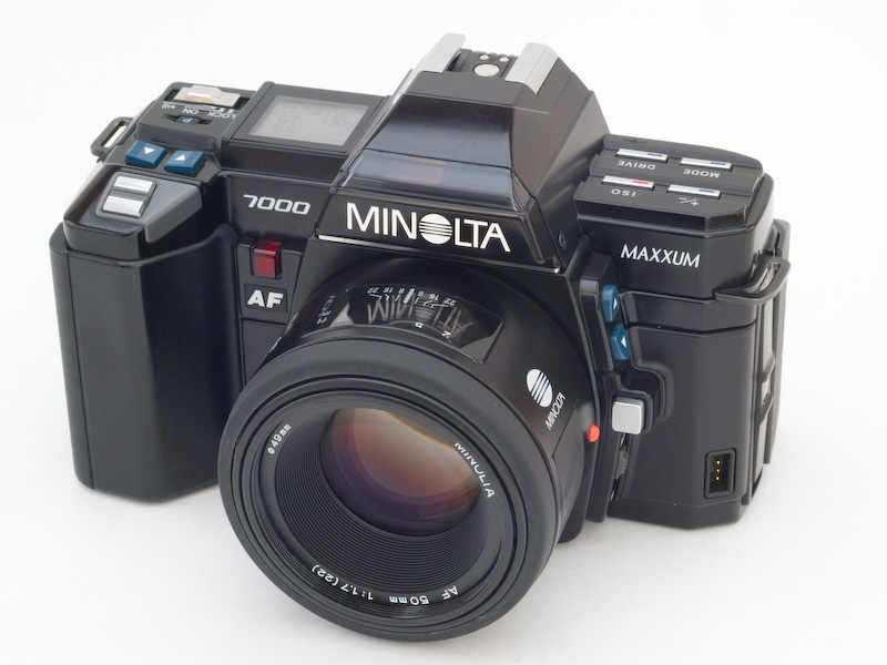 Maxxum 7000 next to a Maxxum/Dynax 7